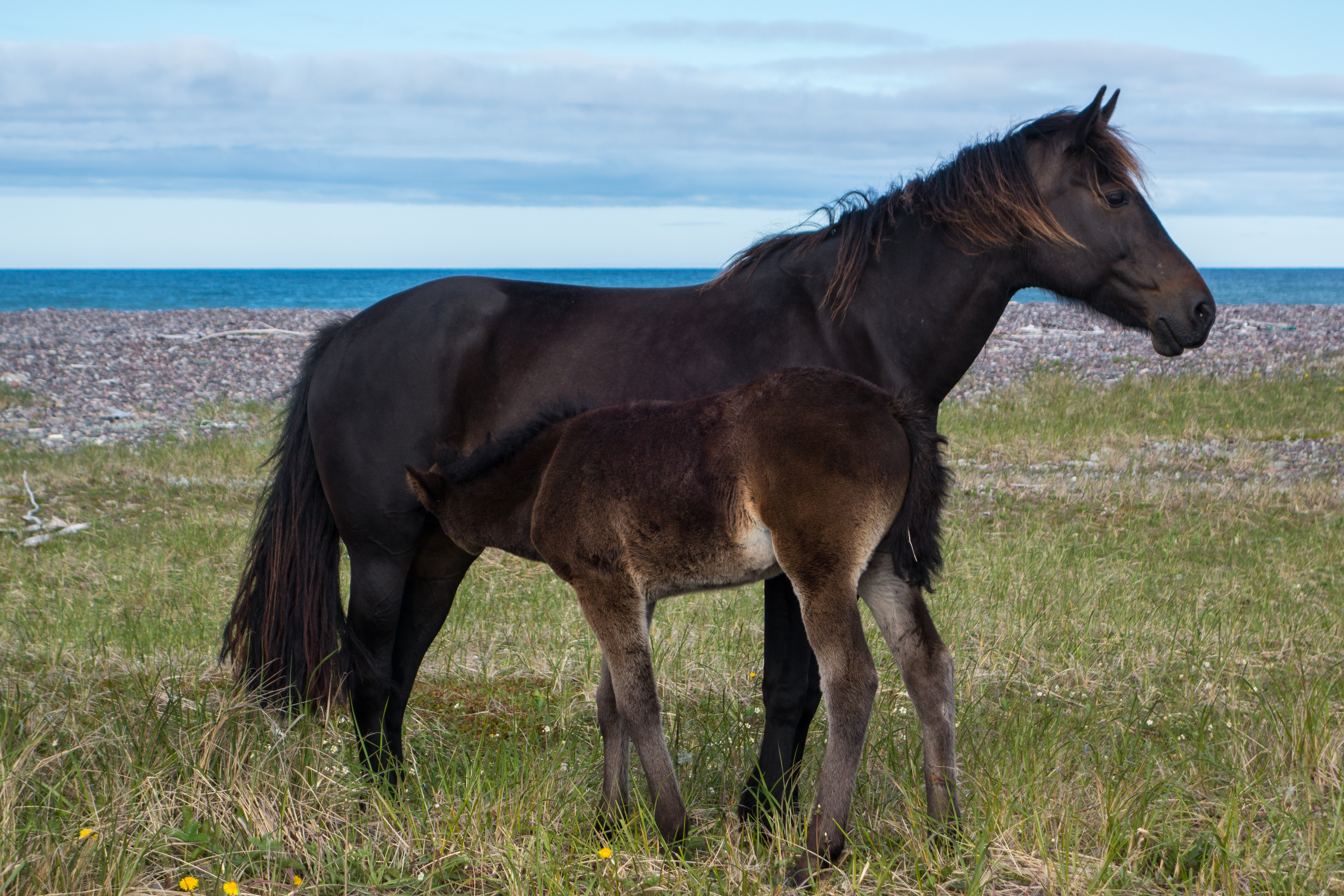 Feral horses on the tombolo connecting Langlade and Miquelon islands (French territory of Saint-Pierre-et-Miquelon).